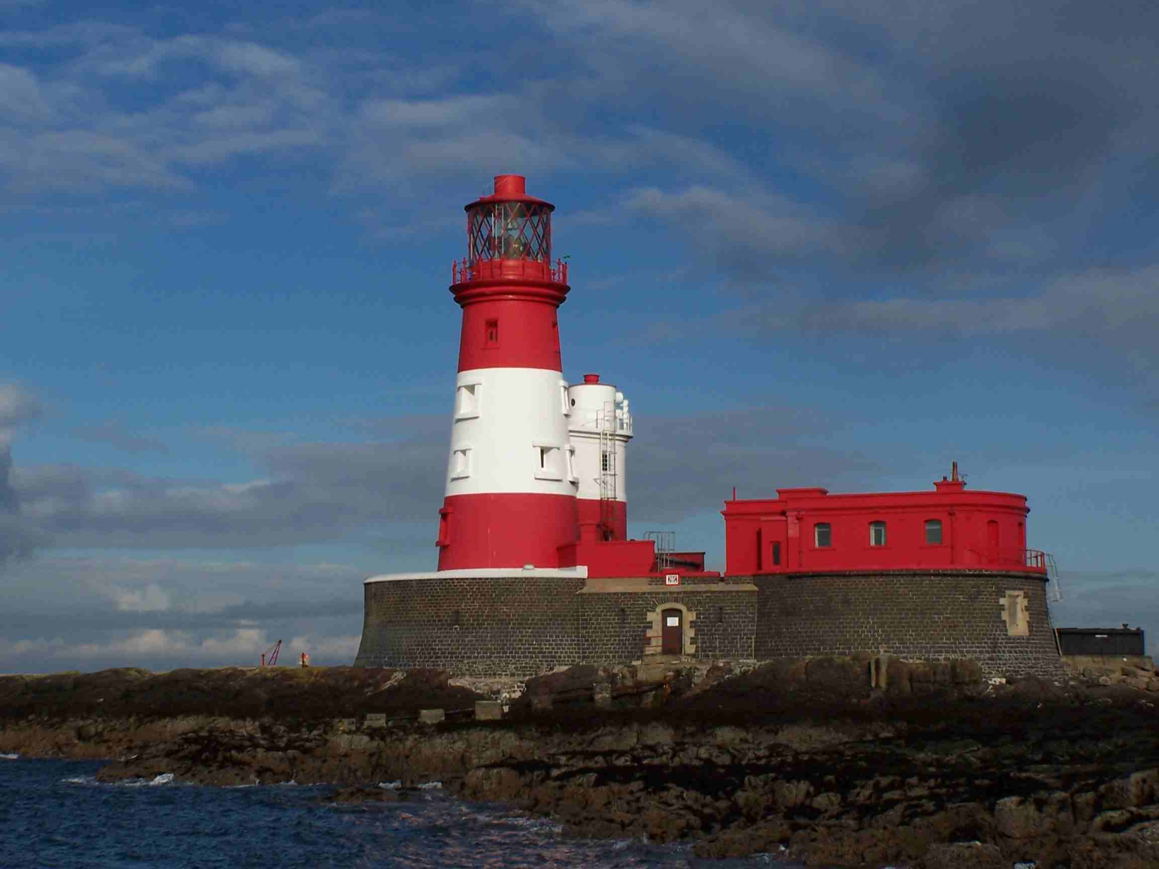 Personal picture taken by Mick Knapton in October 2006